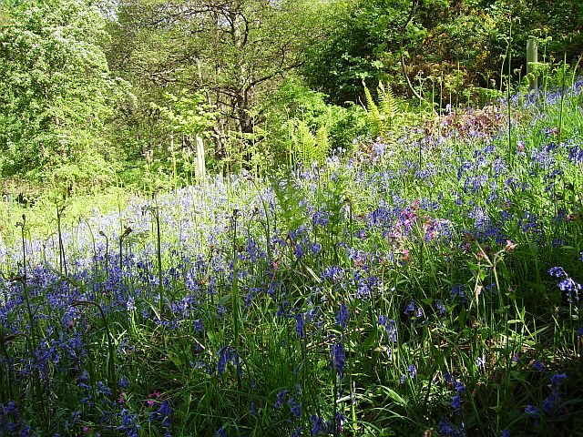 Bluebells, Pease Dean.